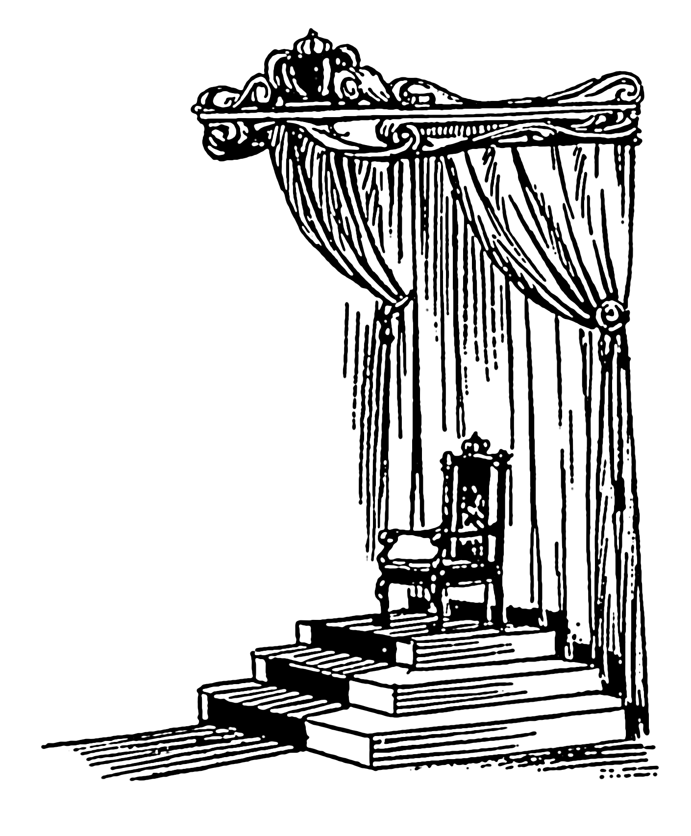 Line art drawing of a dais.